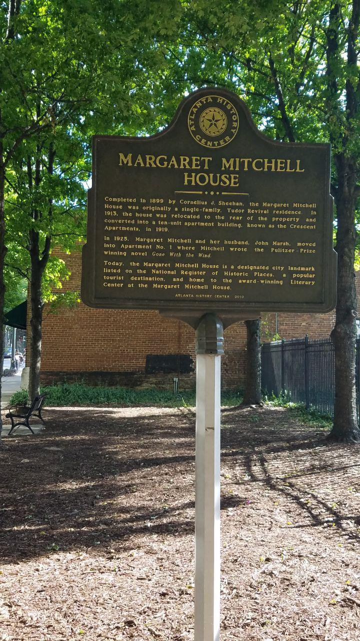 Sign from the Atlanta Historical Center in front of the Margaret Mitchell House